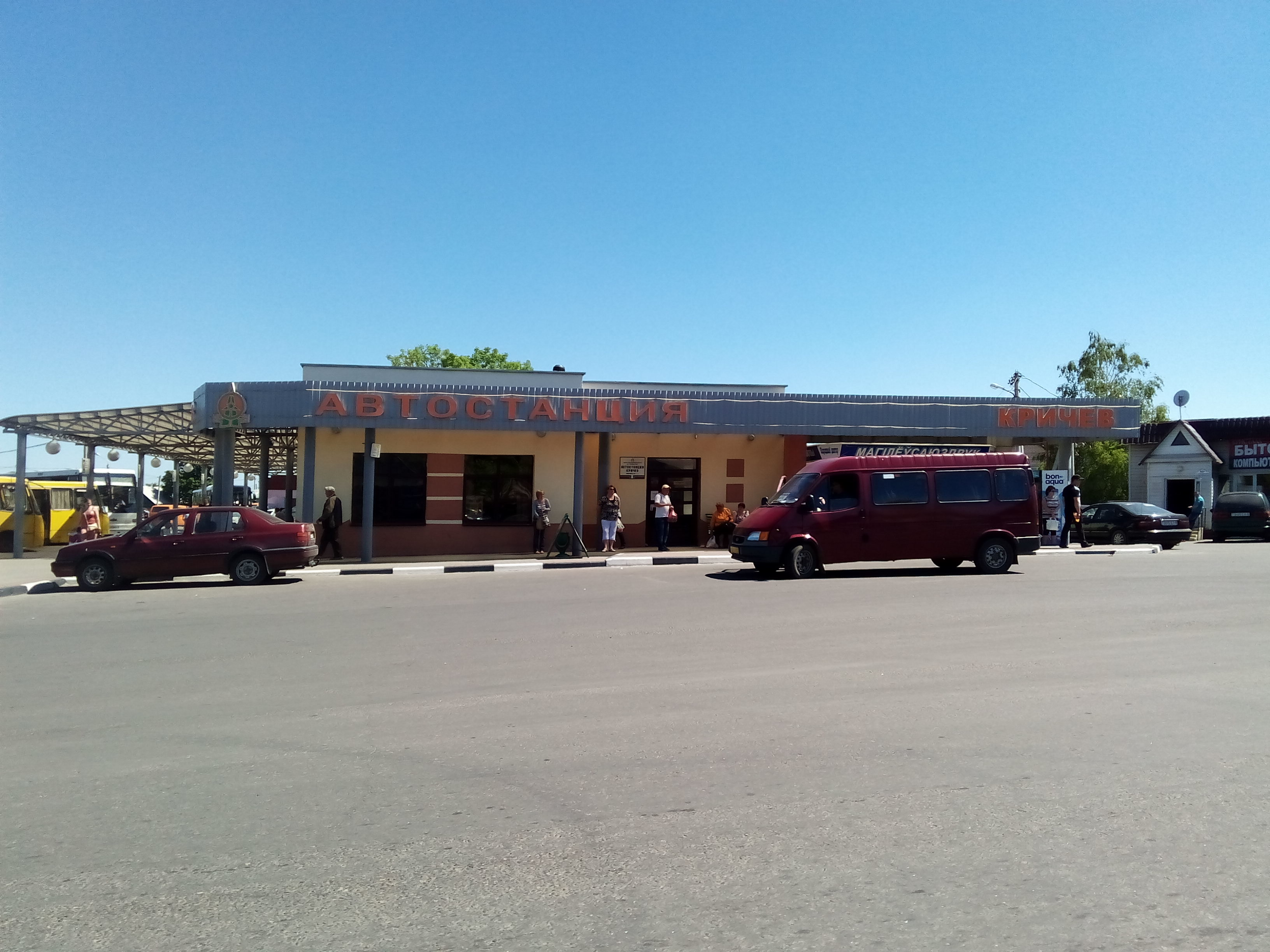 The bus station in Krichev